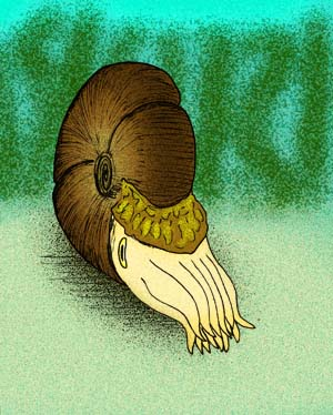 Reconstruction of the Russian Carboniferous ammonoid Aenigmatoceras rhipaeum.